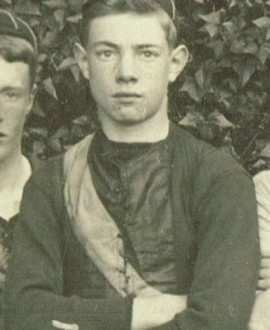 Photograph of Charles Langtree in 1900.